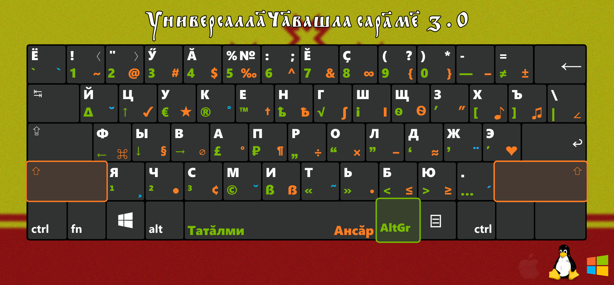 Chuvashian universal keyboard layout by Danila Isakov